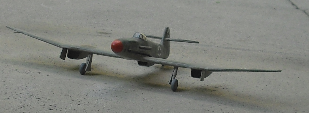 Model photo Blohm & Voss BV 155 (Messerschmitt Me 155)